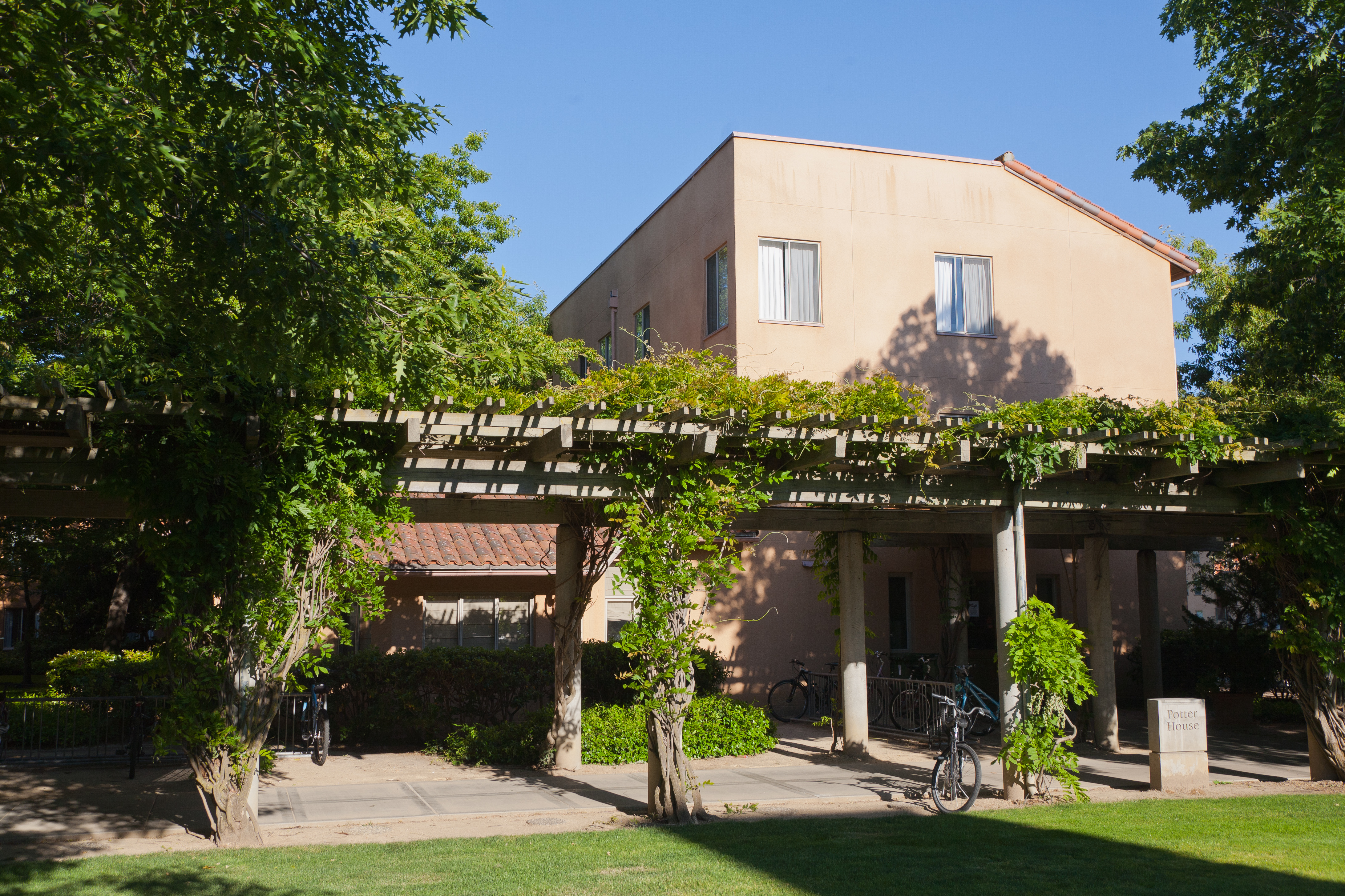 Potter House in Stanford University, Stanford, California.